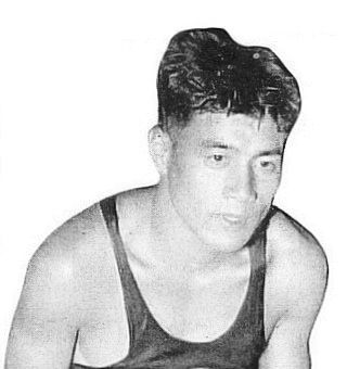 Hiroshi Negami